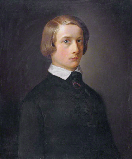 Self portrait oil on canvas 44.5 x 36 cm c. 1844